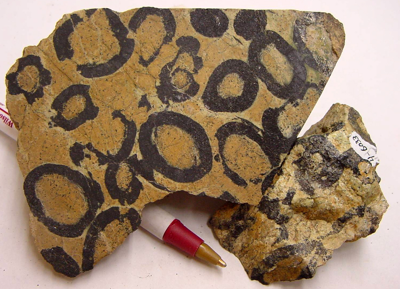 Chromite (Pen for scale) Locality: unknown Original description: Chromite (Spinel). Pen for scale. Mineral collection of Brigham Young University Department of Geology, Provo, Utah. Photograph by Andrew Silver. BYU index 4-6033, FeCr2O4.